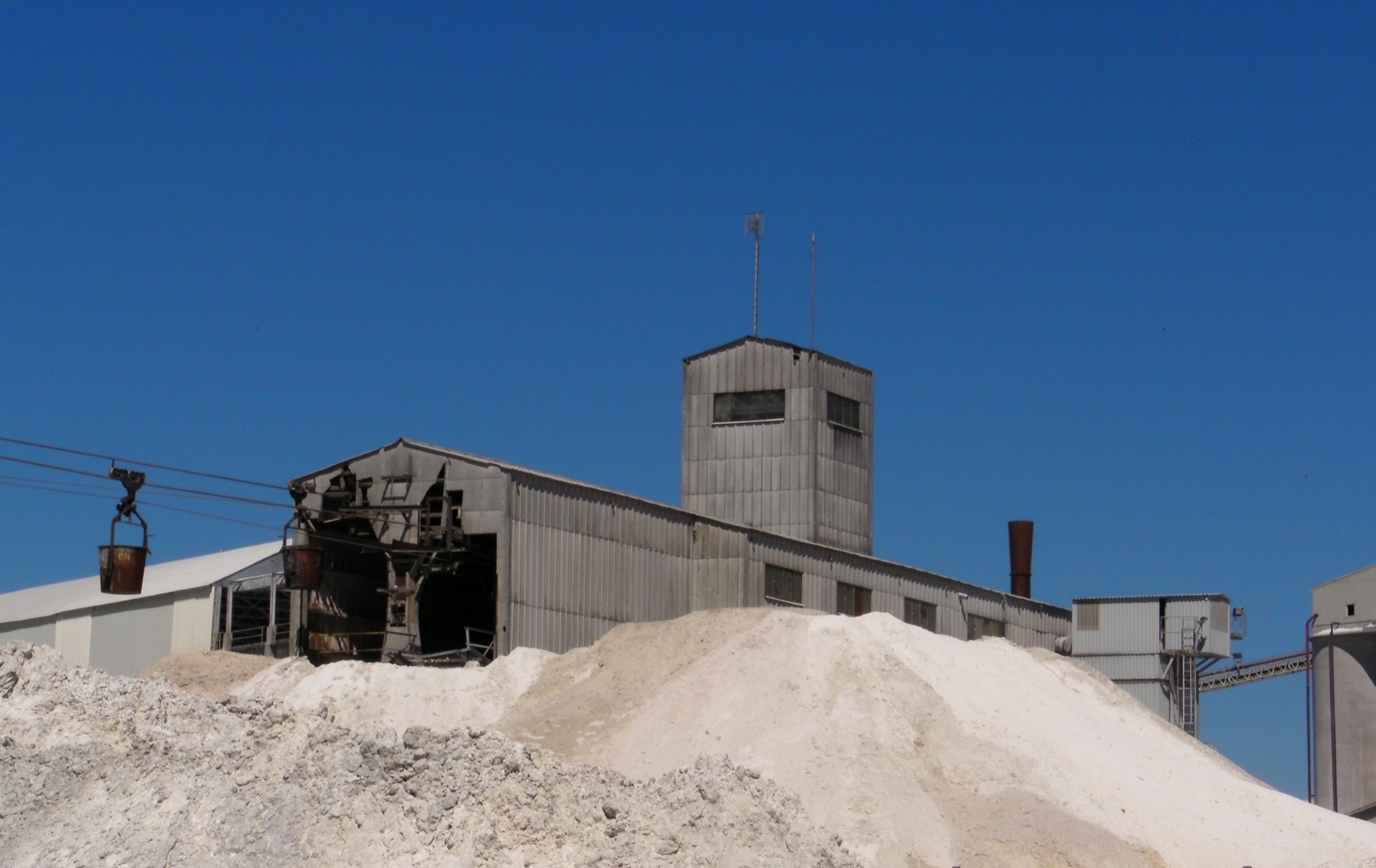 Forsby-Köping limestone cableway, transporting limestone for cement production between 1941-1997, presently the world's longest ropeway.